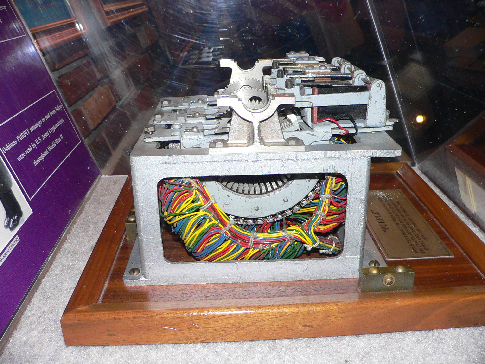 Side view of a fragment of a Type B Cipher Machine, known to the U.S. as Purple, on display at the United States National Security Agency's National Cryptologic Museum located in Ft. Meade, Maryland. It is the largest fragment known to have survived. The fragment contains three 7x25 stepping switches and implemented one stage of the "twenties" cipher. A similar mechanical design, with four 7x25 stepping switches, is seen in the JADE cipher File:JADE, Japanese Type-97 cipher machine captured in Saipan in June 1944 - National Cryptologic Museum - DSC07850.JPG